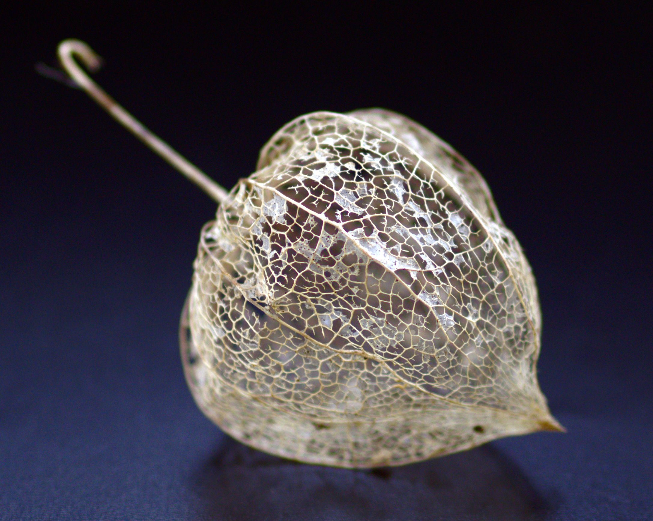 dried Physalis alkekengi